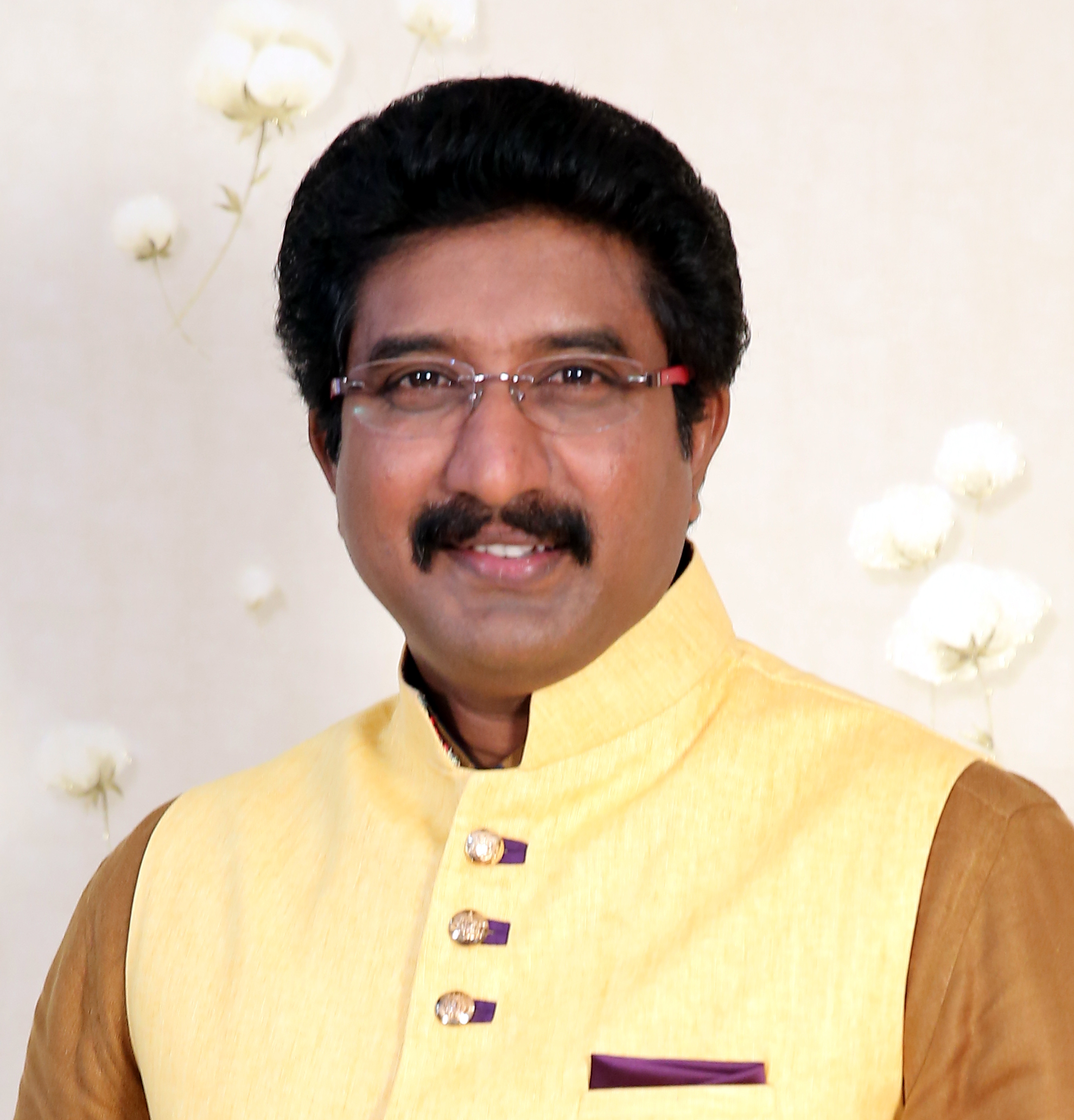 Bro. Satish Kumar